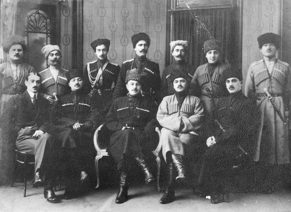 From Wikipedia: "The Mountainous Republic of the Northern Caucasus (MRNC; also known as the Mountain Republic or the Republic of the Mountaineers) (1917?1920) was a shortlived state situated in the Northern Caucasus. It included most of the territory of the former Terek Oblast and Dagestan Oblast of the Russian Empire, which now form the republics of Chechnya, Ingushetia, North Ossetia-Alania, Kabardino-Balkaria, Dagestan and part of Stavropol Krai of the Russian Federation." Read more.